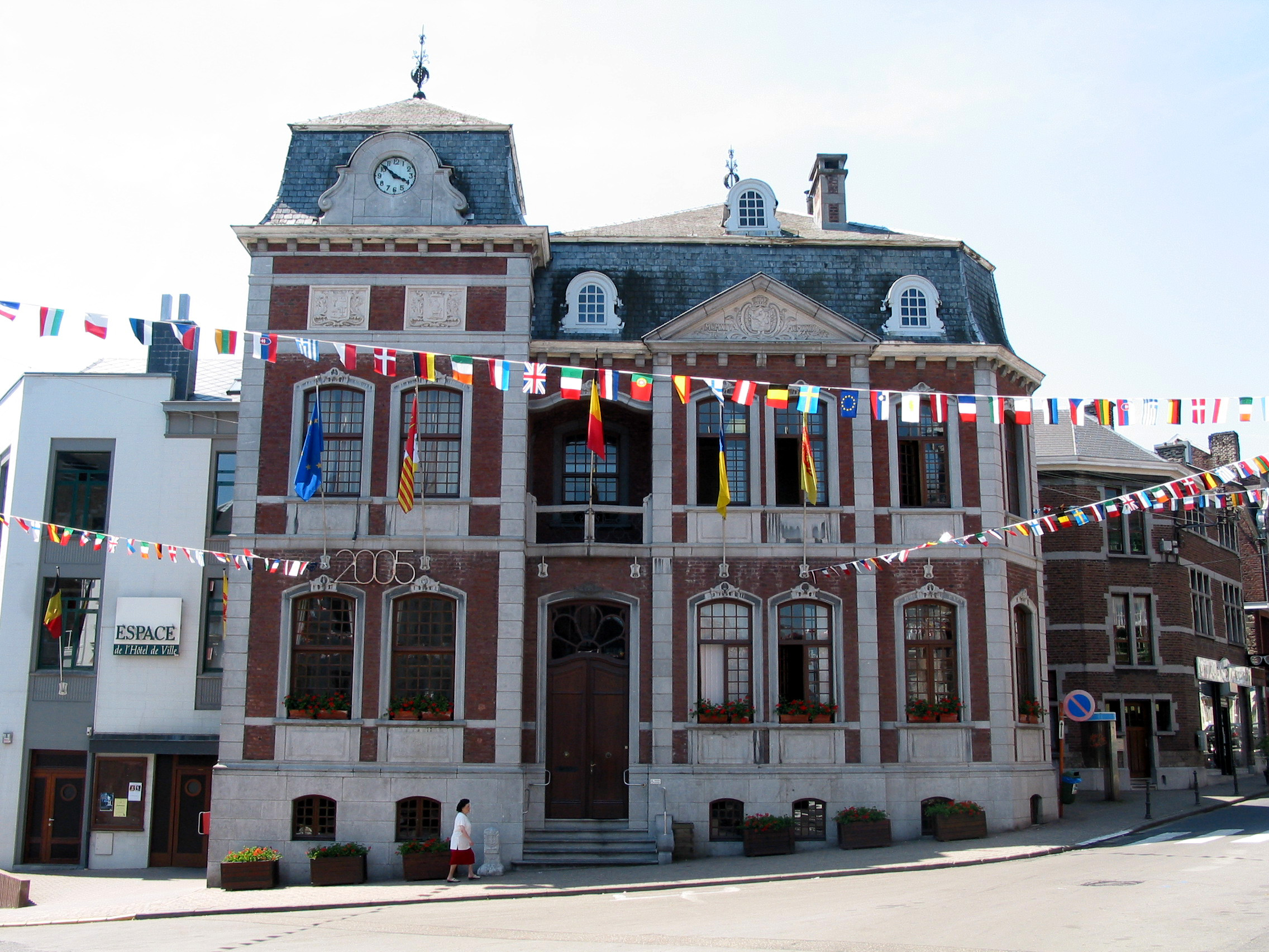 Herve (Belgium), ), the town hall (1929).